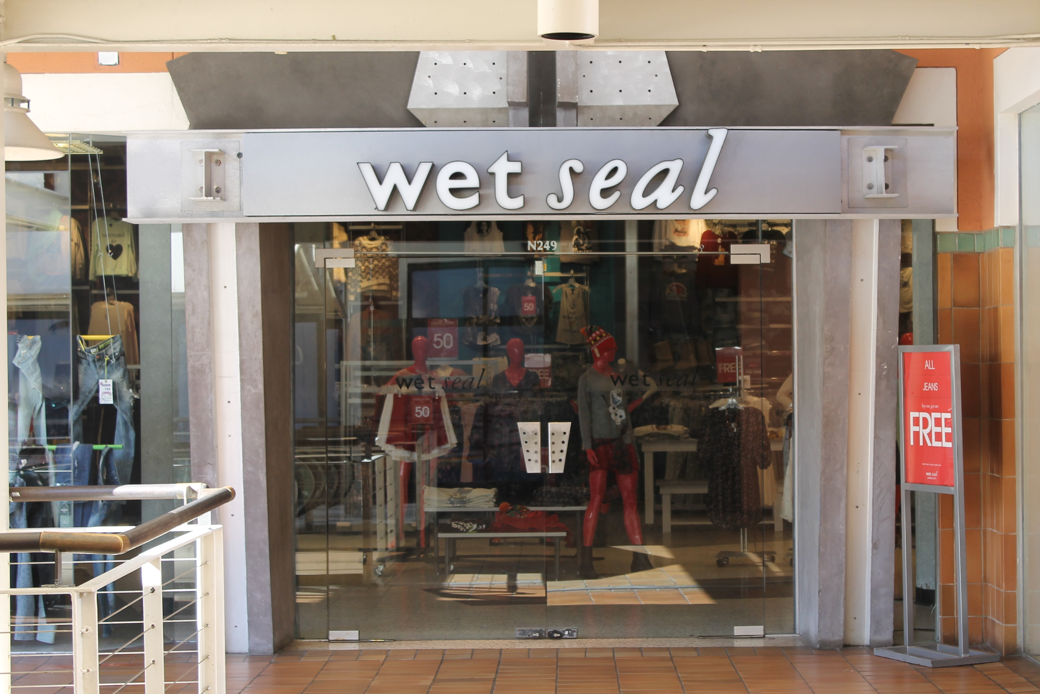 Wet Seal Bayside Miami Still Open